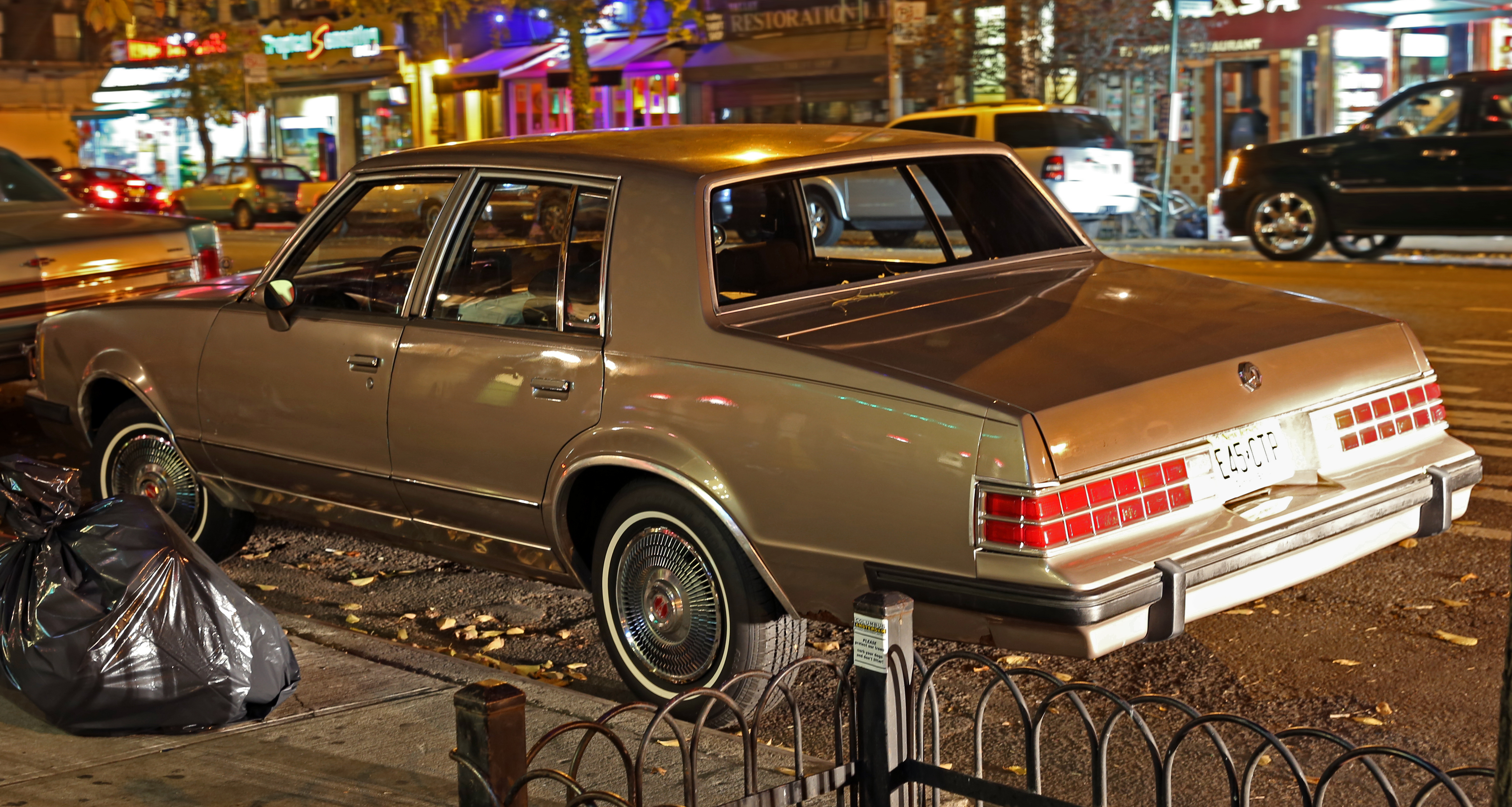 1982-1986 Pontiac Bonneville Model G. At the site of a film shoot in NYC's Upper West Side.